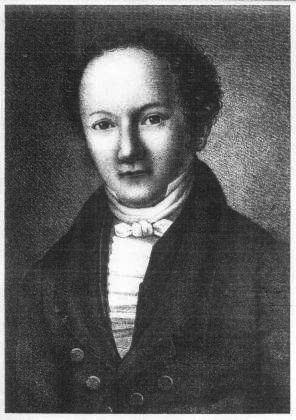 Engraving of Wilhelm Gesenius